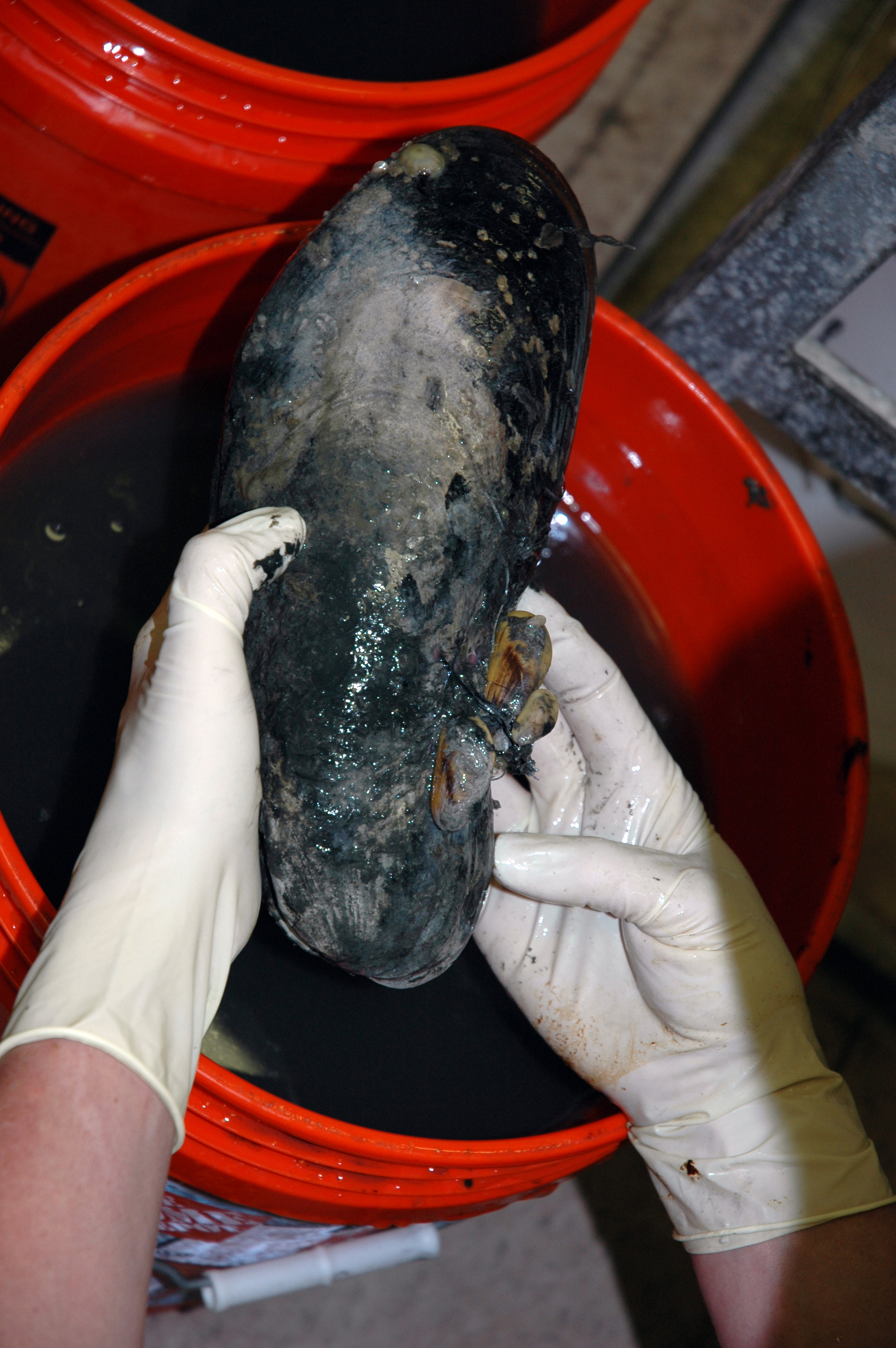 Bathymodiolus brooksi